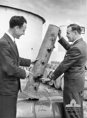 Mr D Erskine (right) and Mr J Browning of the Shell Oil Company inspect the bullet riddled mast of the Company's tanker Ondina which was found in a North Fremantle boilermaker's yard.